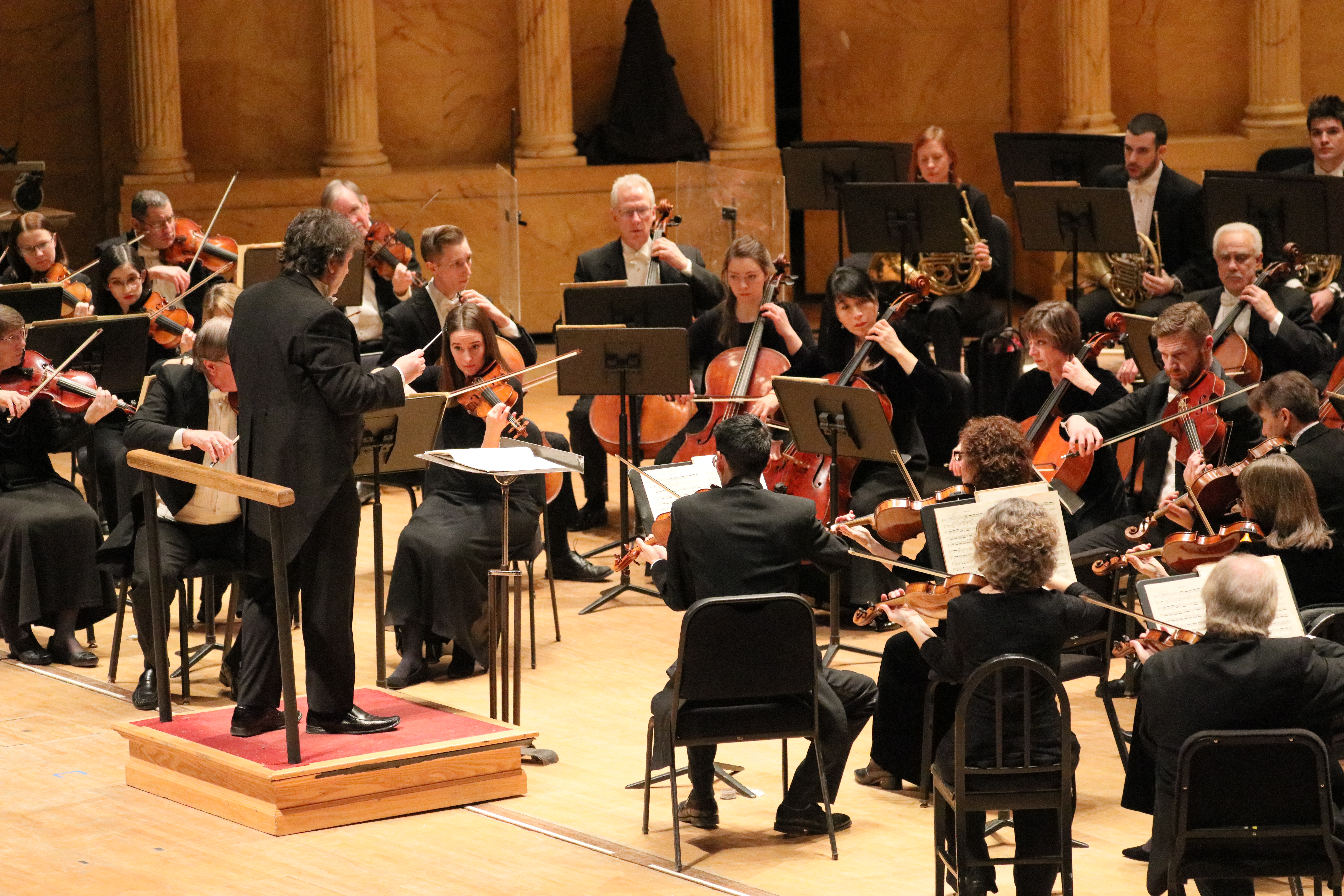 Toledo Symphony Orchestra performance.